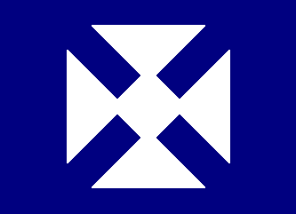 XIX Corps, Middle Military Division, 2nd Division Badge